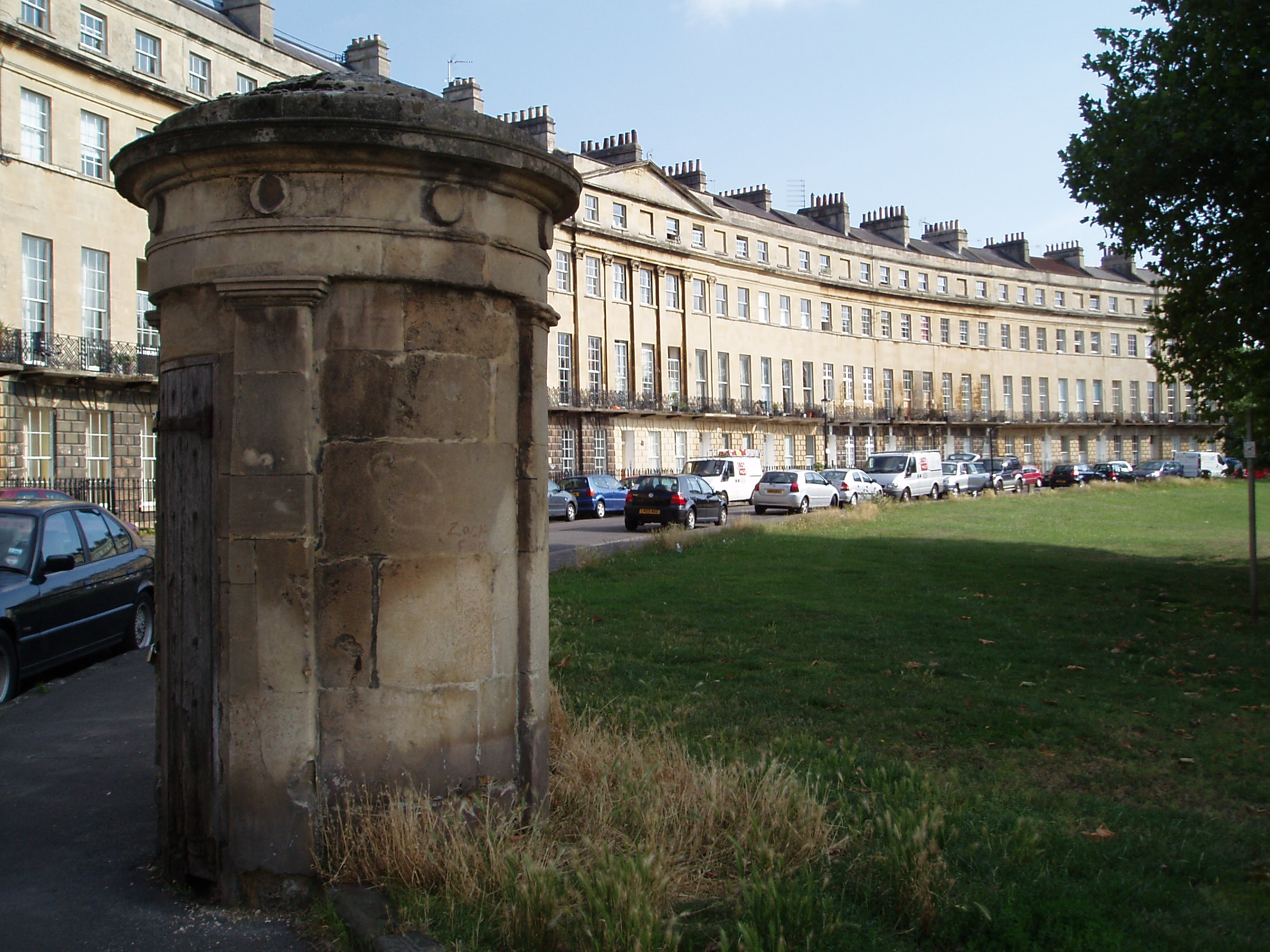 A view of part of Norfolk Crescent, Bath, with the watchman's box in the foreground.